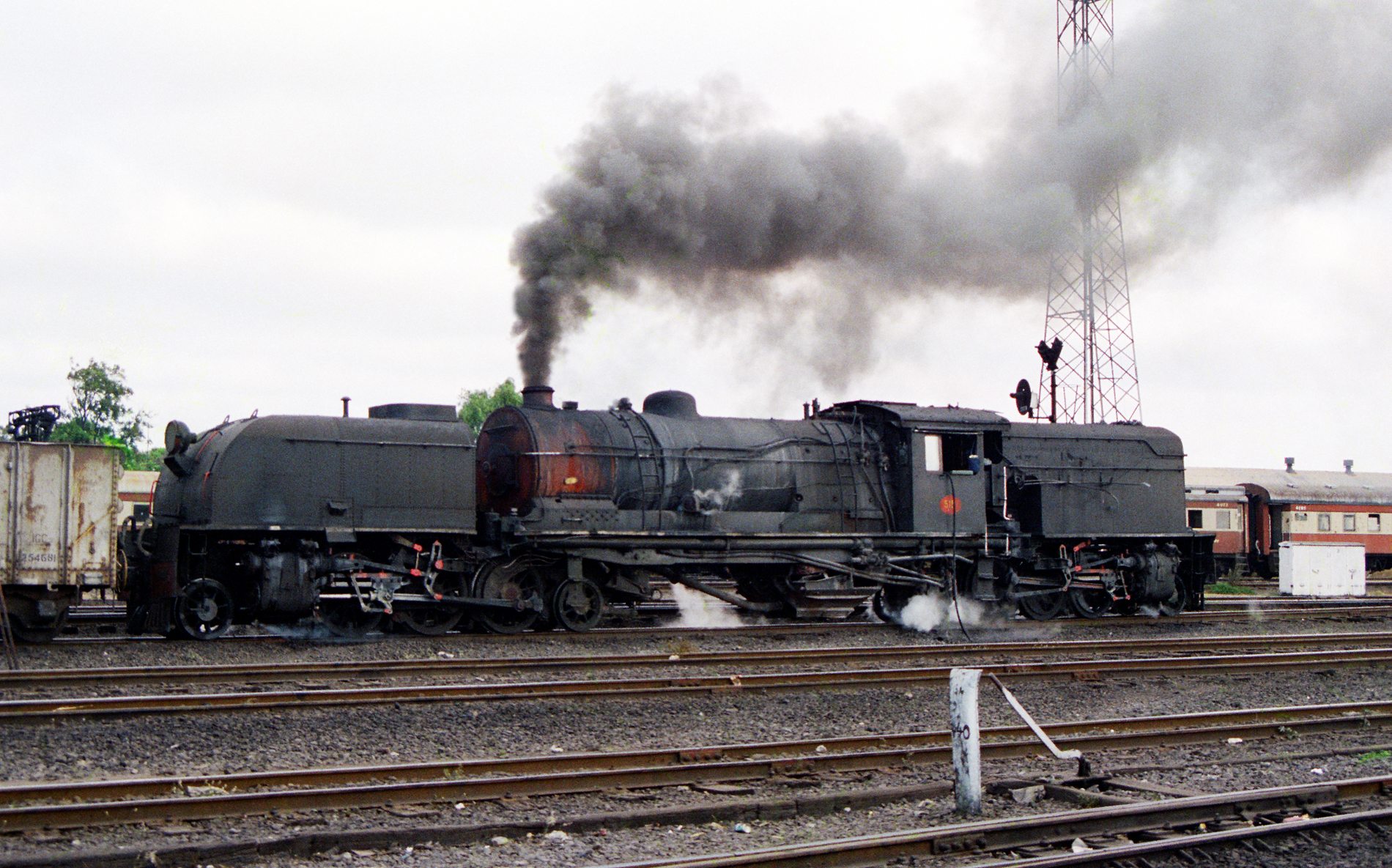 National Railways of Zimbabwe 14A class no 515 on Ash Spur shunt, Bulawayo Station